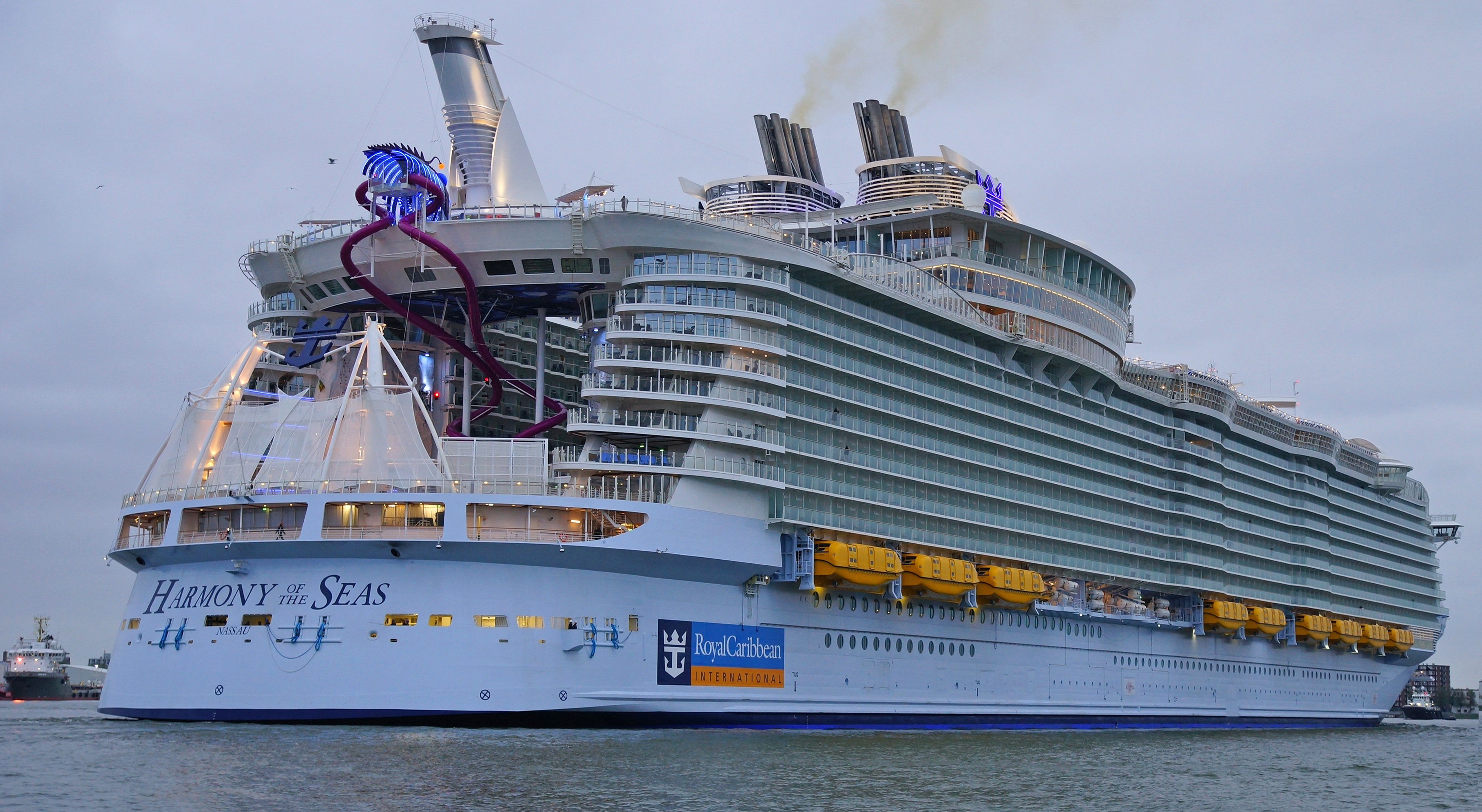 Cruiseship Harmony of the Seas in Rotterdam